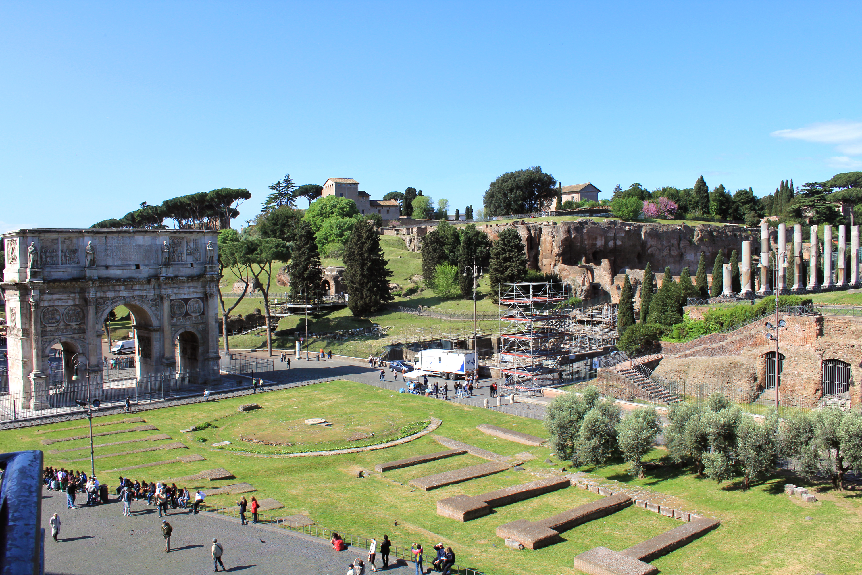 Look from Colosseum by direction of Palatine Hill and Arch of Constantine , Rome, Italy